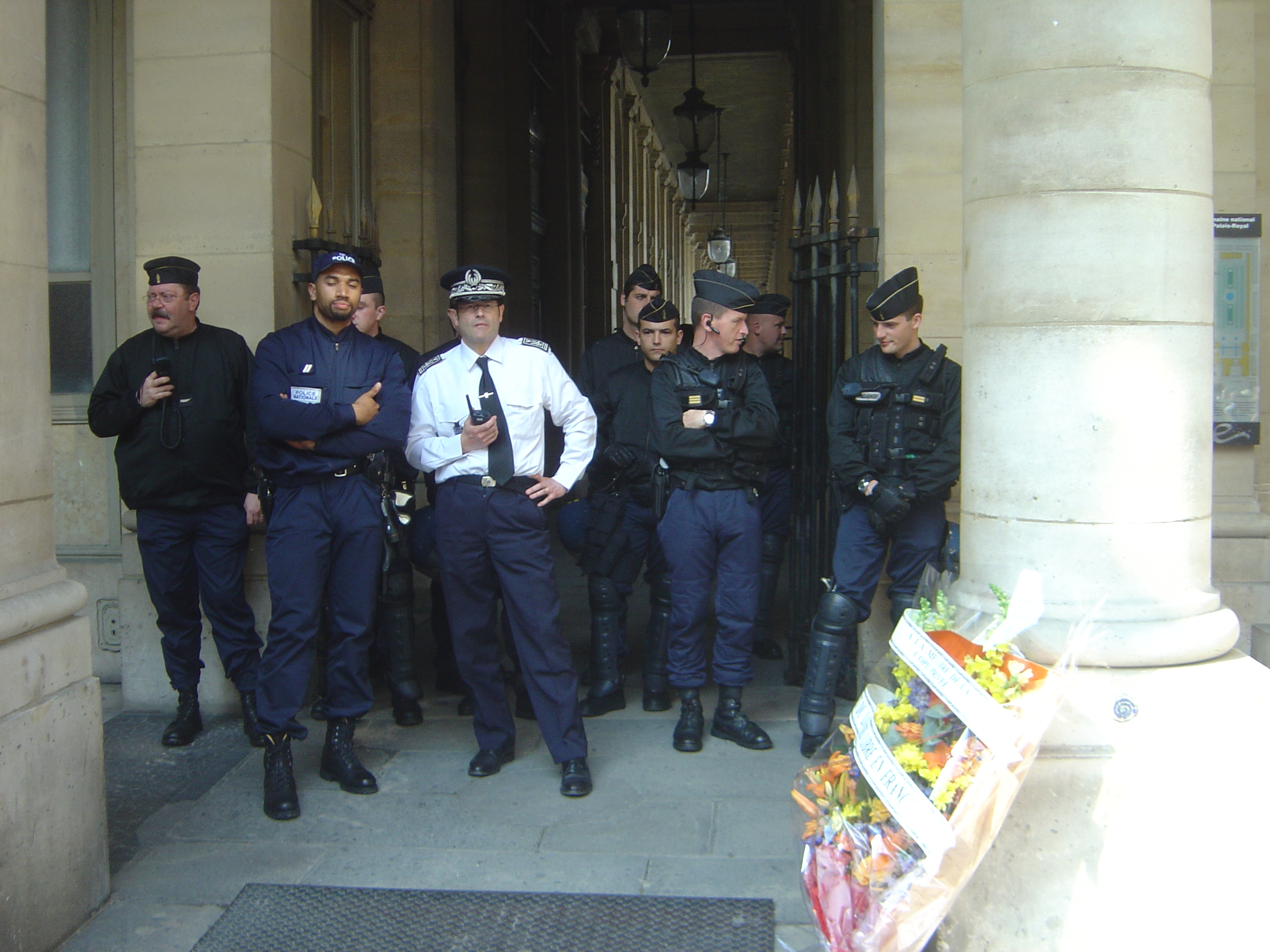 March against digital rights management techniques and the DADVSI copyright law (from Bastille plaza to the Ministry of Culture).